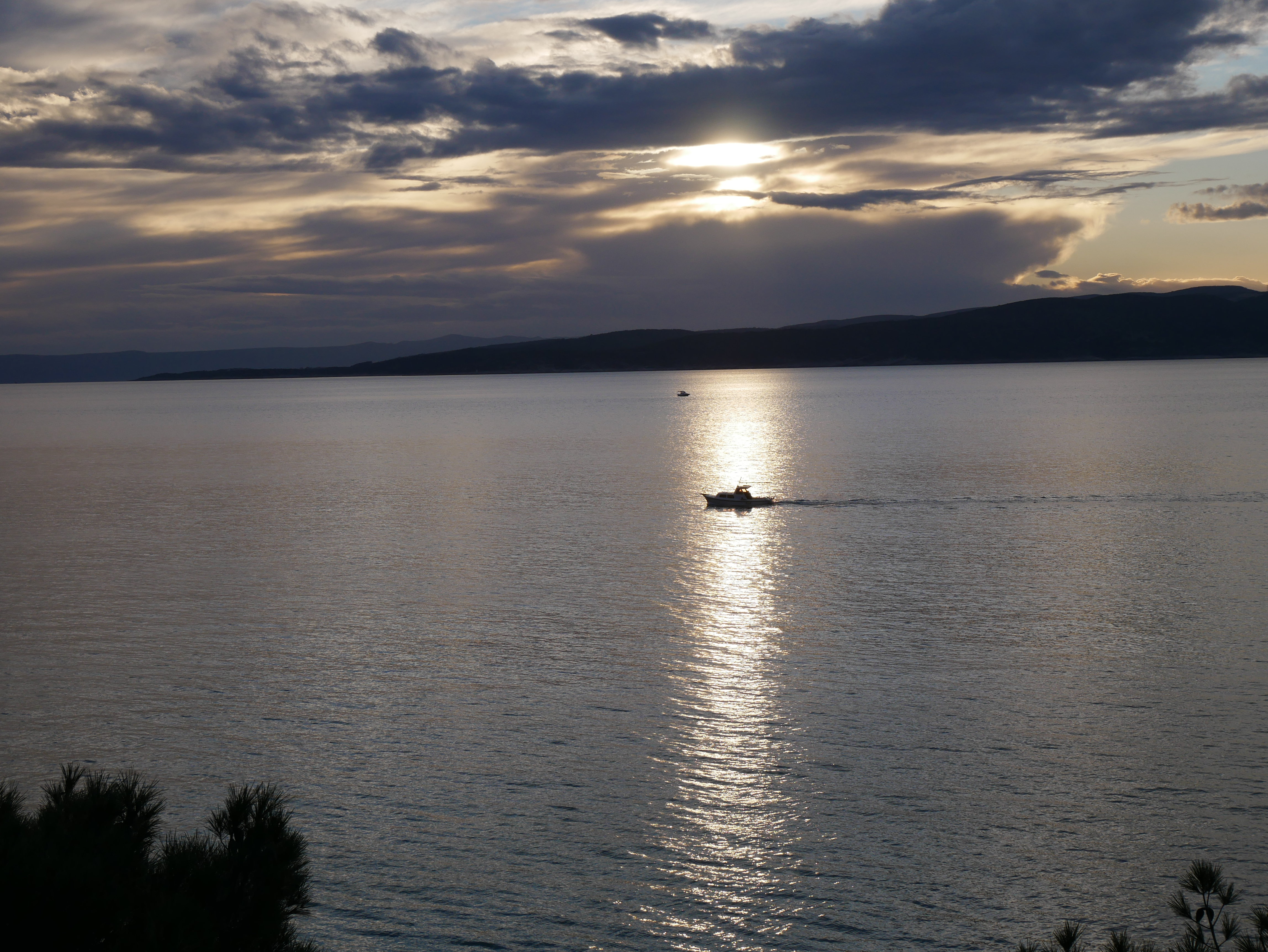 Baska Voda is beautiful